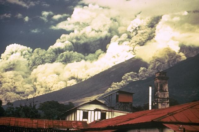 Pyroclastic flows sweep down the east flank of Volcán de Fuego — in October 1974, Guatemala. One of the largest historical eruptions of Volcán de Fuego. Ash clouds rise off the base of the pyroclastic flows, which traveled up to 7 km from the summit at estimated average velocities of 60 km/hr. The travel direction of pyroclastic flows is influenced by topography. The denser basal portion of the pyroclastic flows follows topographic lows on the flanks of the volcano — note a smaller pyroclastic flow descending a gully at the right.